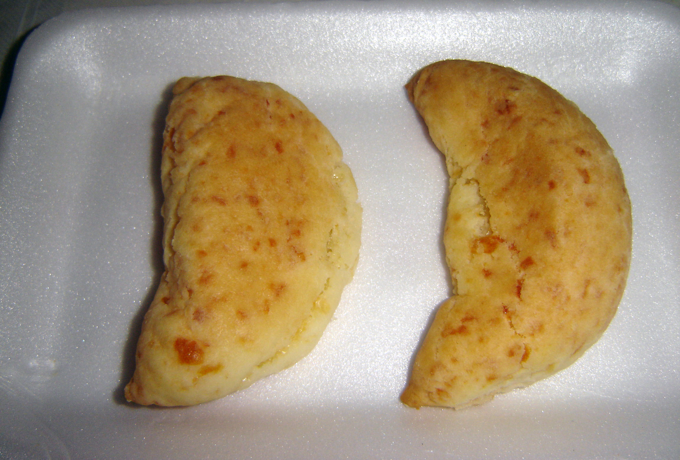 chipá (or chipa)